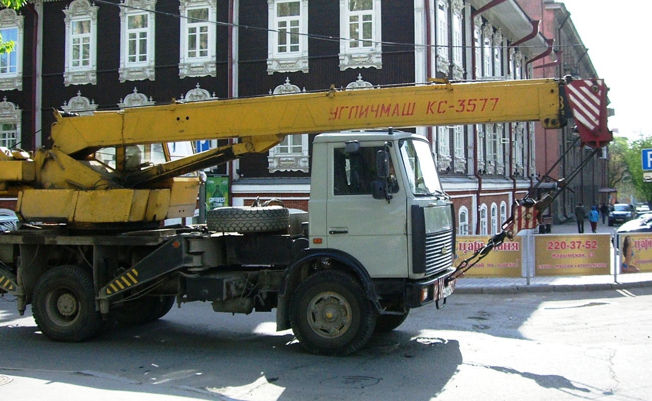 MAZ-based crane truck in Novosibirsk, 2007.